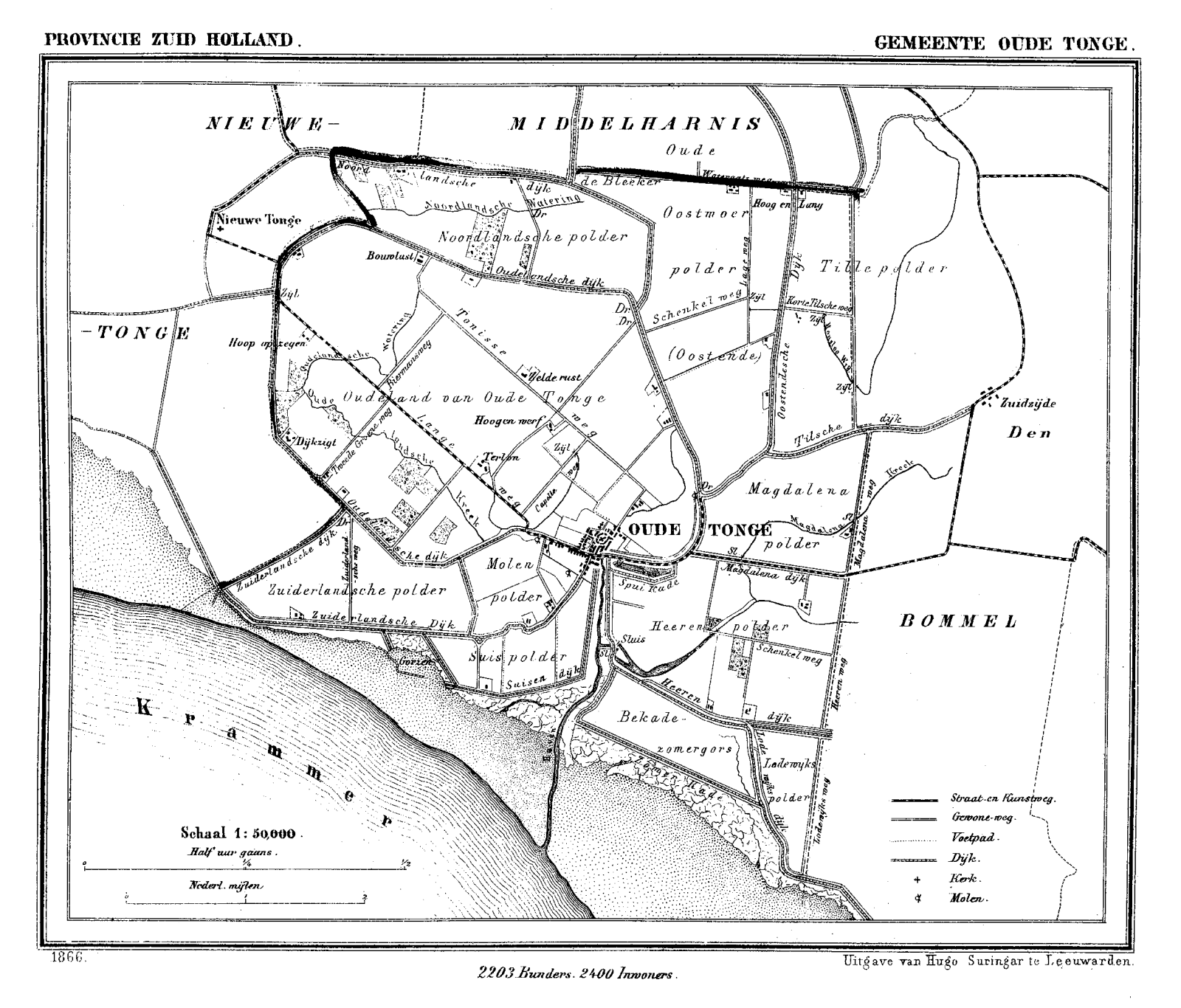 Historic map of Oude Tonge (now part of municipality Oostflakkee), South Holland, the Netherlands